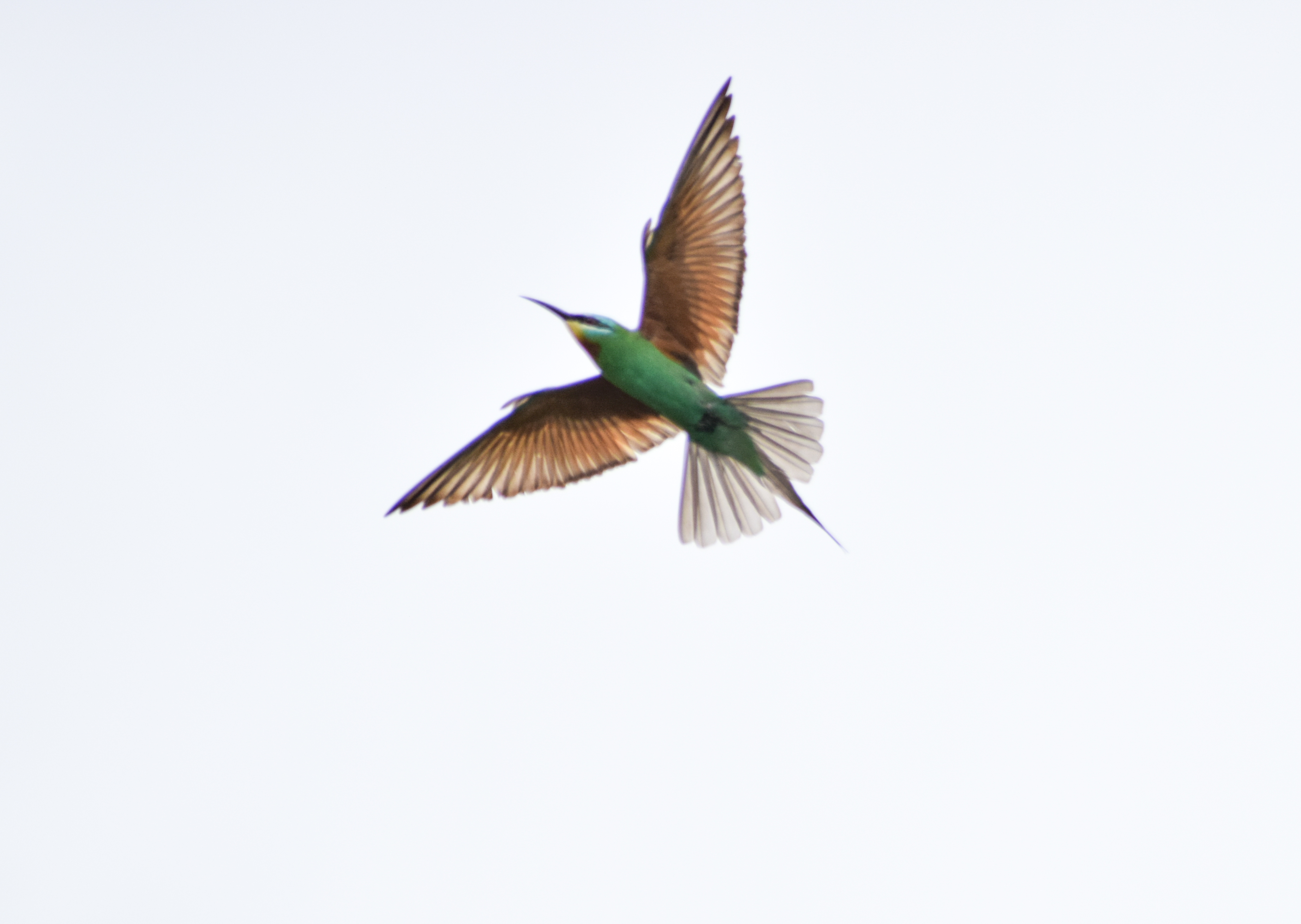 A Blue-cheeked bee-eater in flight seen in Managlore, Karnataka